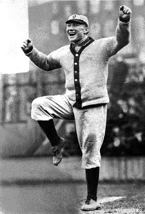 Depicted person: Hughie Jennings – Major League Baseball player and manager